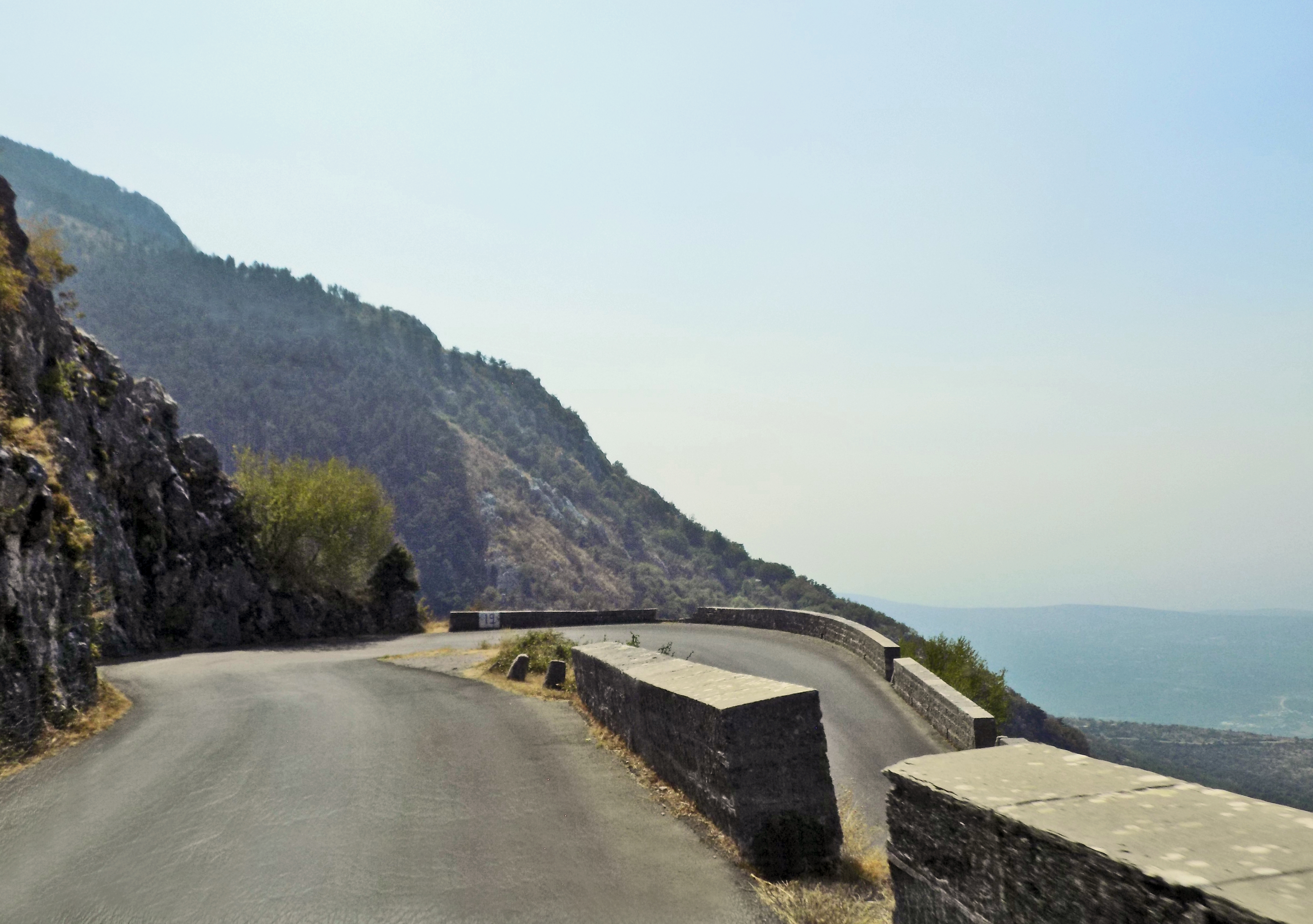 R-1 regional road (Montenegro) - one of 25 serpentines descending down the slope of Lovćen to Kotor